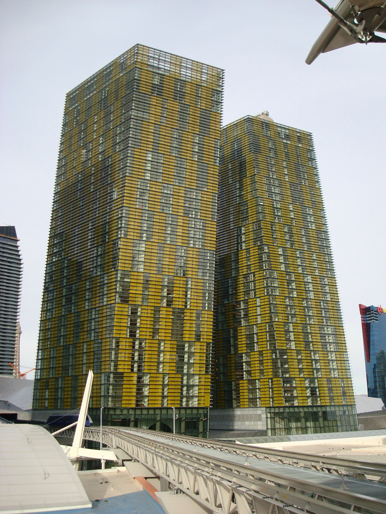 City Center Las Vegas